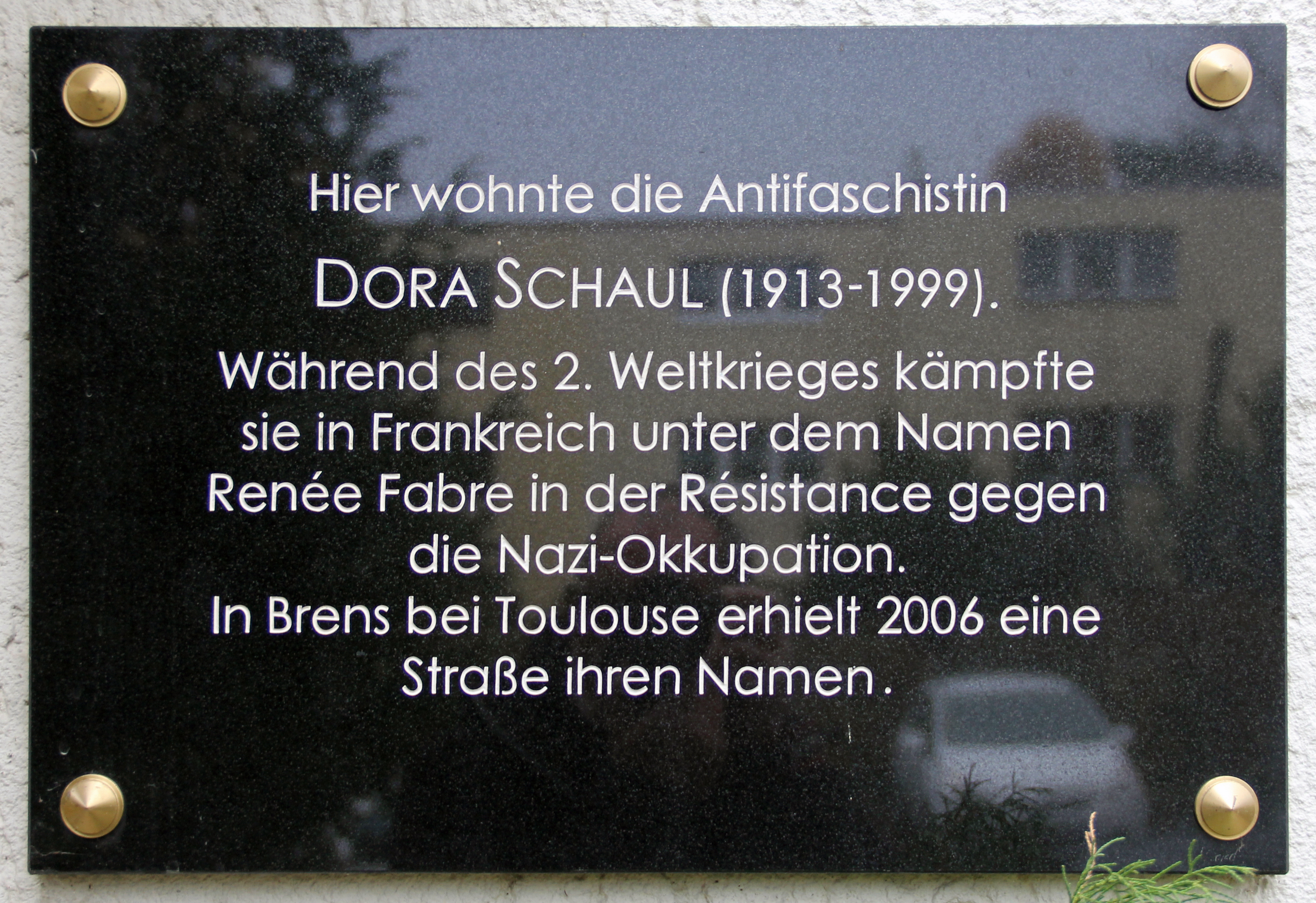 Memorial plaque, Dora Schaul, Dammweg 73, Berlin-Plänterwald, Germany